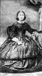 Gottfried Knoche's sister, Anna